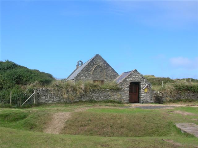 Llandanwg church. The ancient church at Llandanwg on the dunes. Update Feb 07: This church is identified by the National Trust as a historic site that may be lost in the next 100 years through rising sea levels.